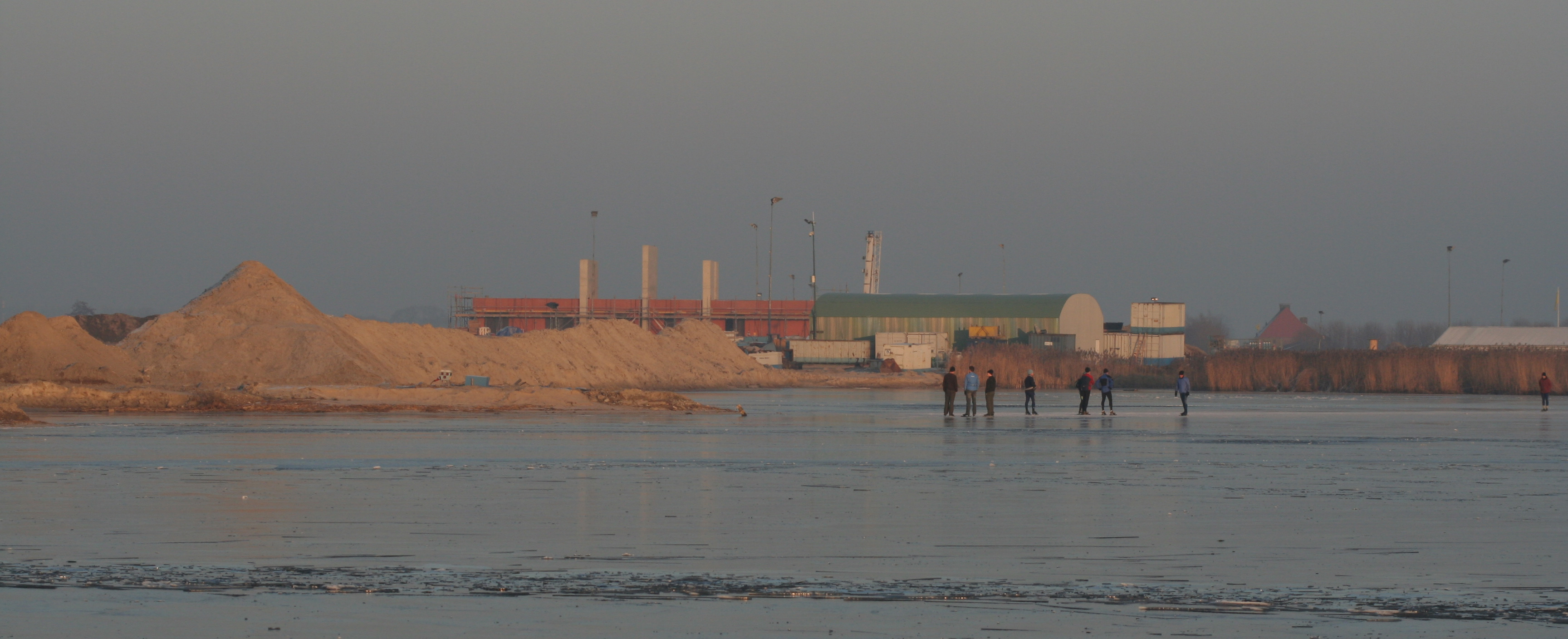 Plek waar de Drontermeertunnel in aanbouw is